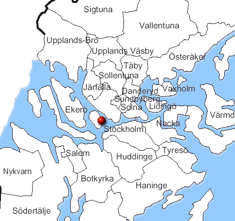 Location of Drottningholm in Municipalities of Stockholm. Map created by Fred J, modified by W.carter